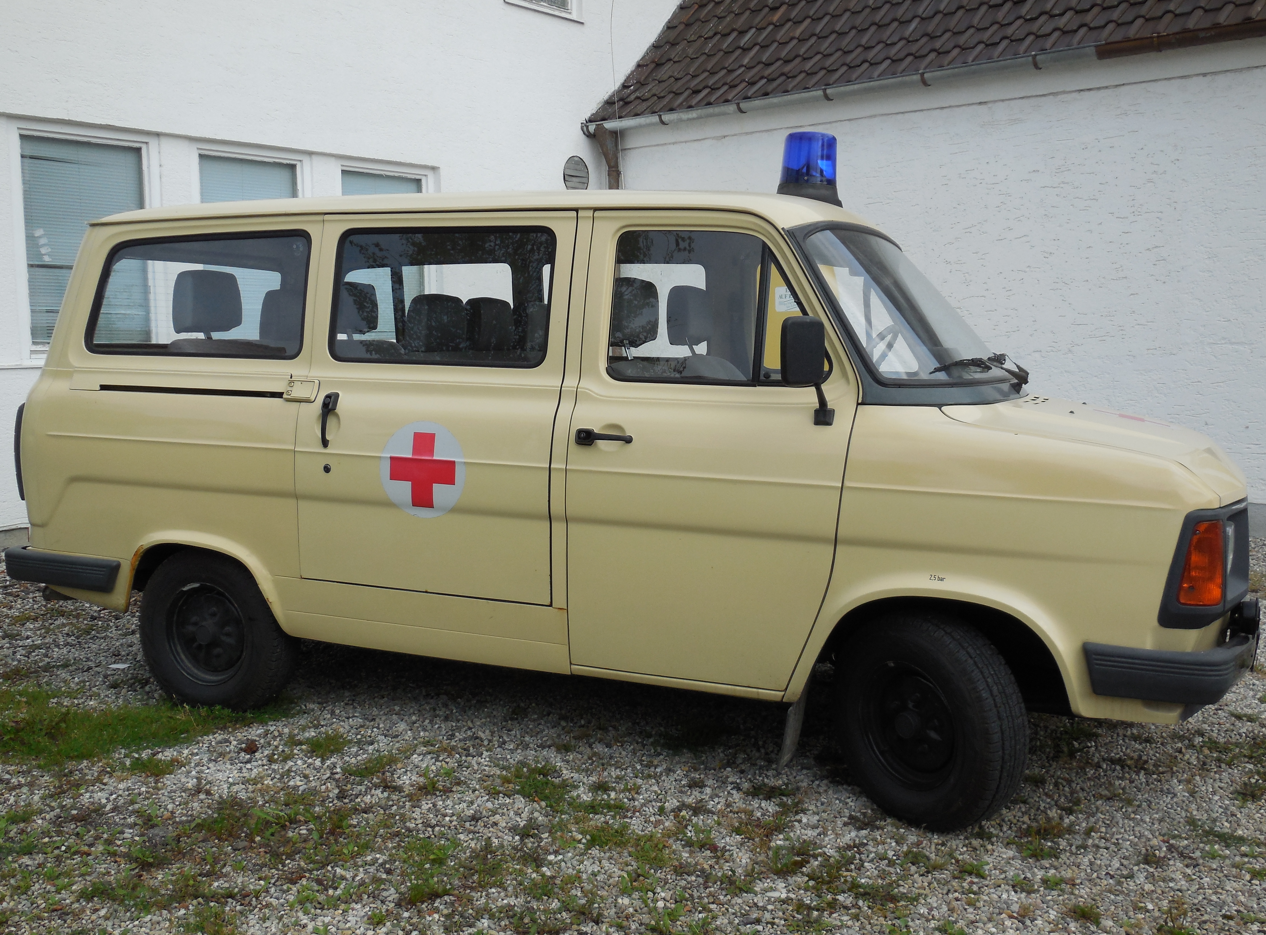 Ford Transit FT100 VLS Di (2,5l Diesel engine, 50kw/68HP), built 1985, in the version as medical staff carrier of German civil protection, view from the right.